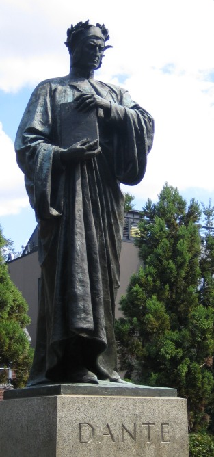 Statue of Dante Alighieri by Ettore Ximenes in Meridian Hill Park, Washington, D.C. Taken 2005 Sept 5 with Canon PowerShot SD300.